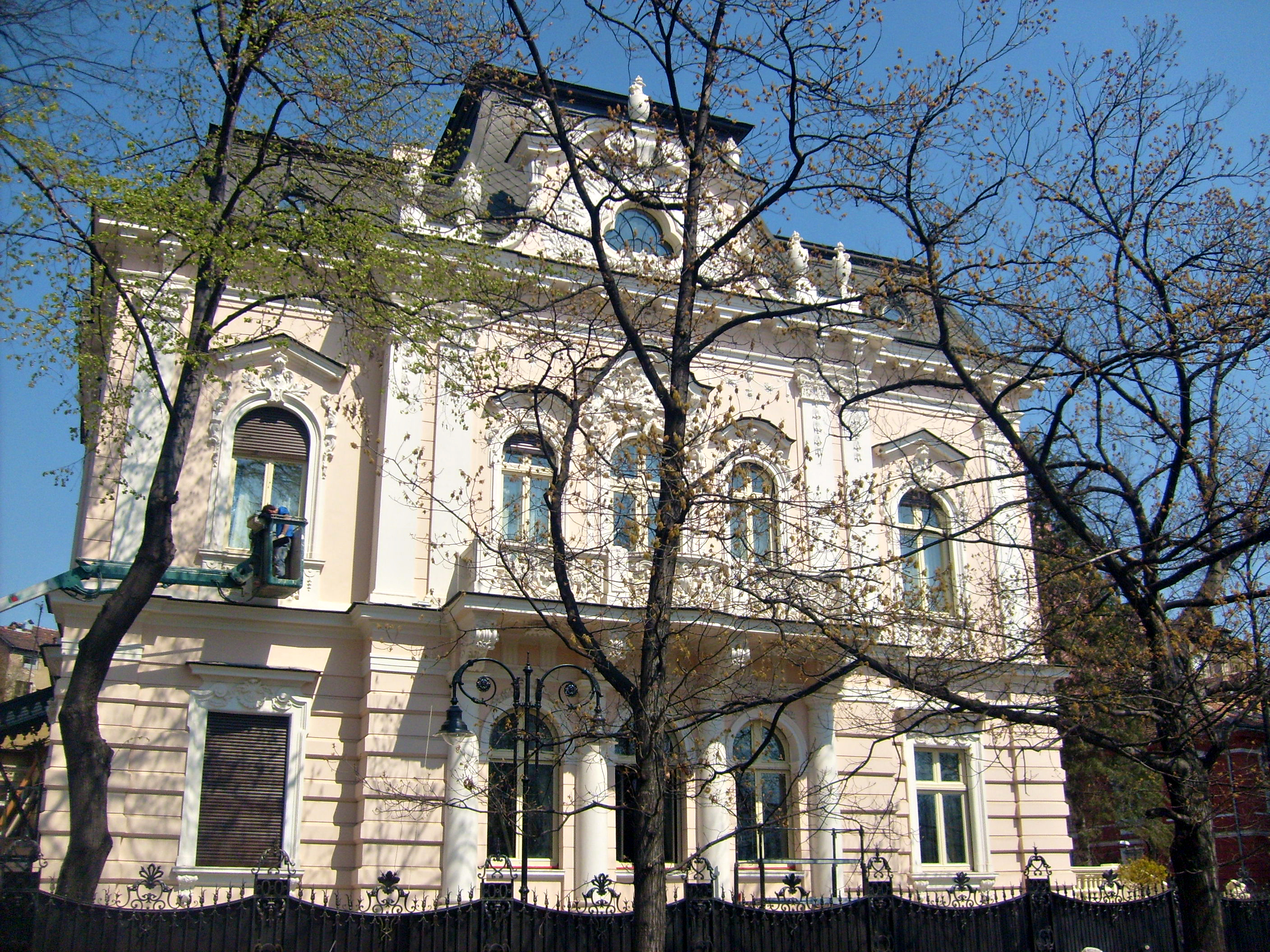 Embassy of Turkey (the old Samardzhiev House) on Tsar Osvoboditel Boulevard, Sofia, Bulgaria